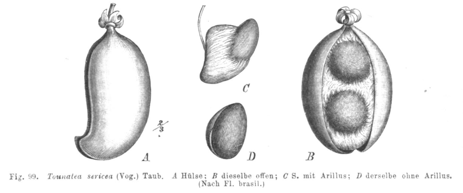 Illustration from book